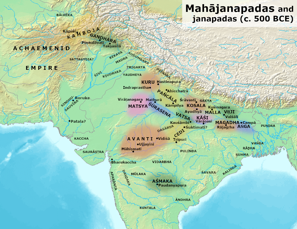 Map of places mentioned in ancient Buddhist Texts (like Anguttara Nikaya), Ramayana and Mahabharata. Sources: (2005) The Hindu Equilibrium: India C.1500 B.C. - 2000 A.D., Oxford University Press, p. xxxviii ISBN: 978-0-19-927579-3. Approximate boundaries are described by H.C. Raychaudhuri (p. 96-150), and Habib, Irfan, and Habib, Faiz (1995). "A Map of India 600-320 B.C." in Proceedings of the Indian History Congress, vol. 56, pp. 95–104. Kenoyer, J. M. (1995), “Interaction Systems, Specialised Crafts and Culture Change: The Indus Valley Tradition and the Indo-Gangetic Tradition in South Asia”, in G. Erdosy, The Indo-Aryans of Ancient South Asia: Language, Material Culture, and Ethnicity, Berlin: Walter de Gruyter, ISBN 9783110144475 Raychaudhuri, H.C. (1972), Political History of Ancient India: From the Accession of Parikshit to the Extinction of the Gupta Dynasty, Calcutta: University of Calcutta. Schwartzberg, J. E. (1992), A Historical Atlas of South Asia: University of Oxford Press Singh, U. (2009), A History of Ancient and Medieval India: From the Stone Age to the 12th Century, Delhi: Longman, ISBN 978-81-317-1677-9 Background from Made with GIMP